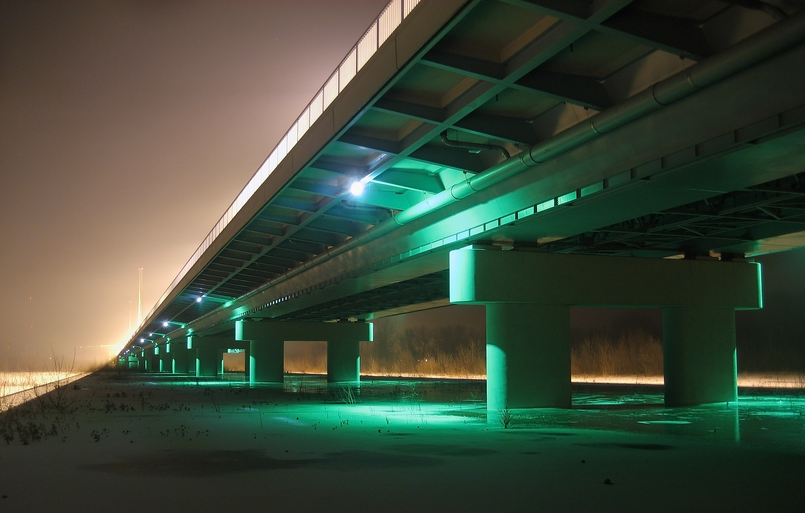 Solidarity Bridge in Płock